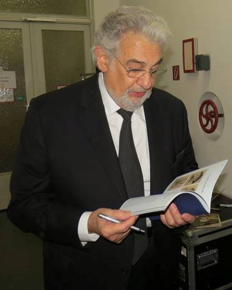 Backstage of Schiller theater, Berlin after Simon Boccanegra on 8 May 2016